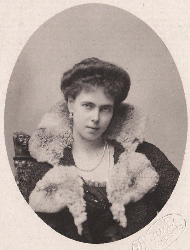 Princess Beatrice of Saxe-Coburg and Gotha, later the Duchess of Galliera when she married Infante Alfonso, Duke of Galliera.